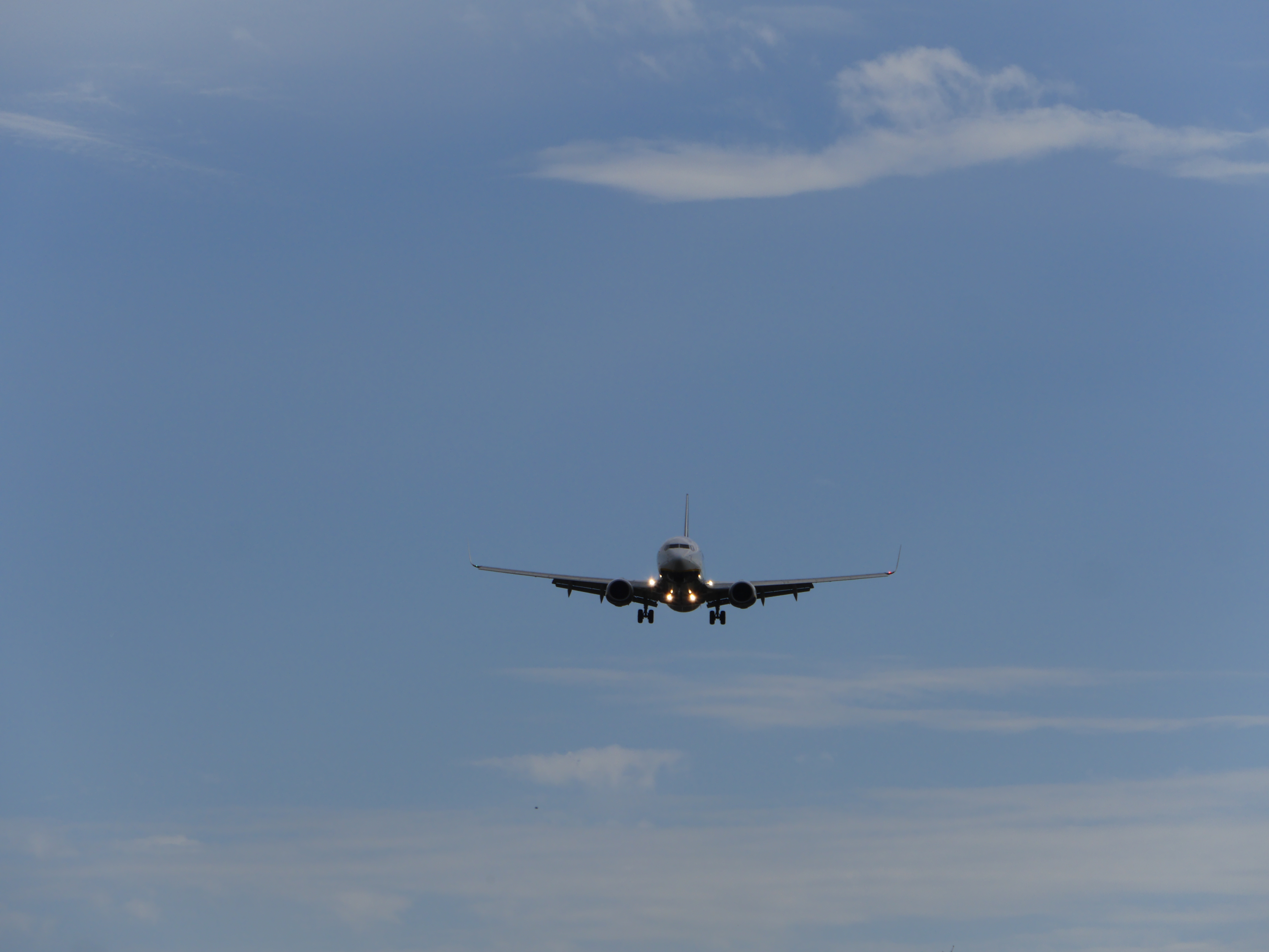 This photo was taken with Panasonic Lumix DMC-GH3 camera, thanks to Panasonic. You can see all photographs in category: Taken with Panasonic Lumix DMC-GH3.